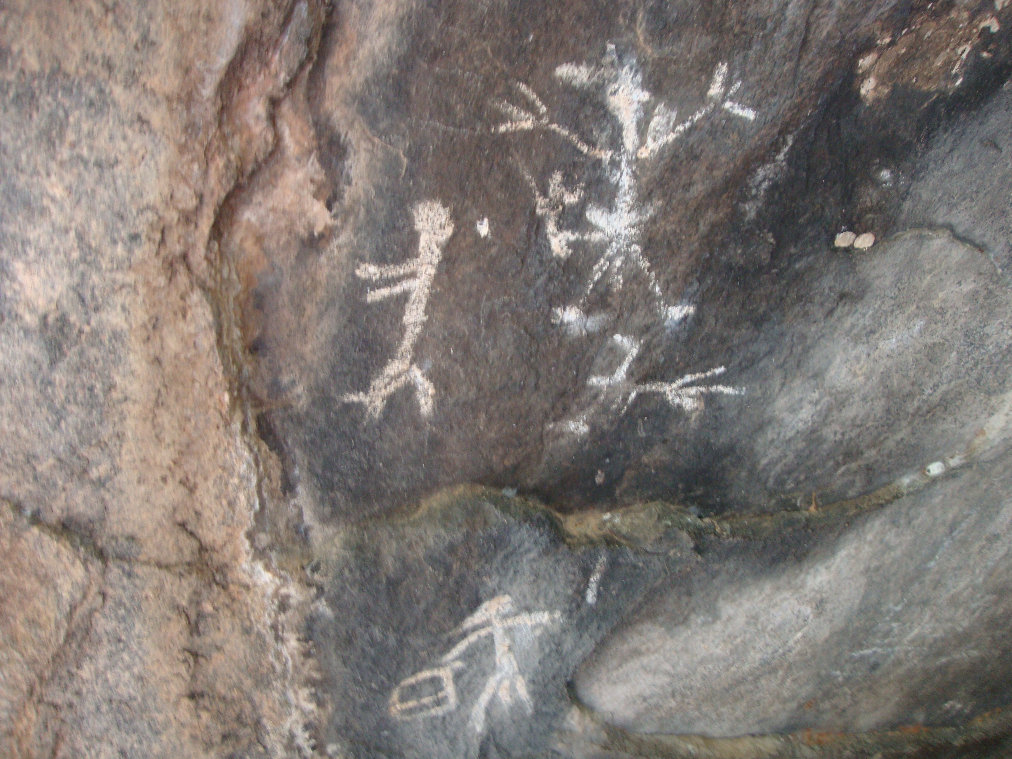 for nehanurpatti article